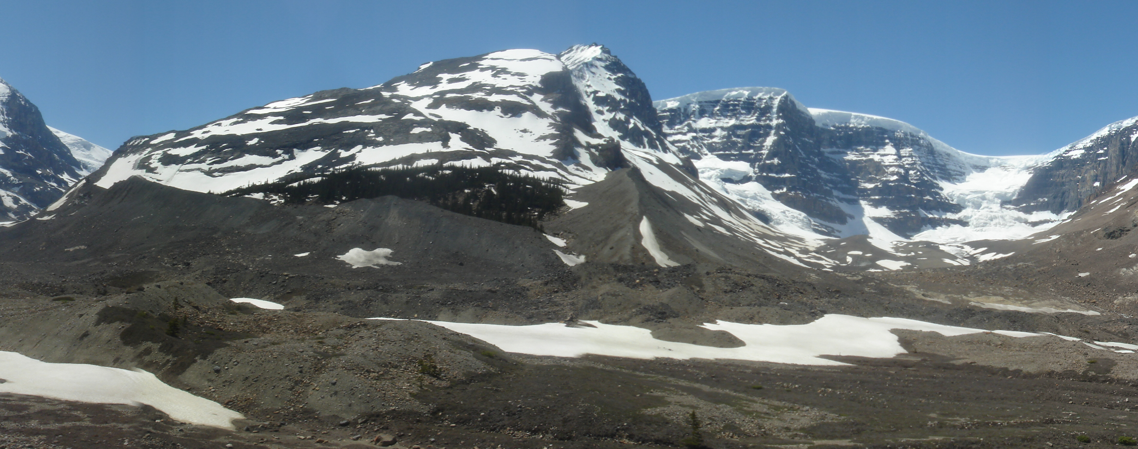 Snow Dome and Dome Glacier in the Canadian Rockies, Jasper National Park, seen from the Icefield Parkway